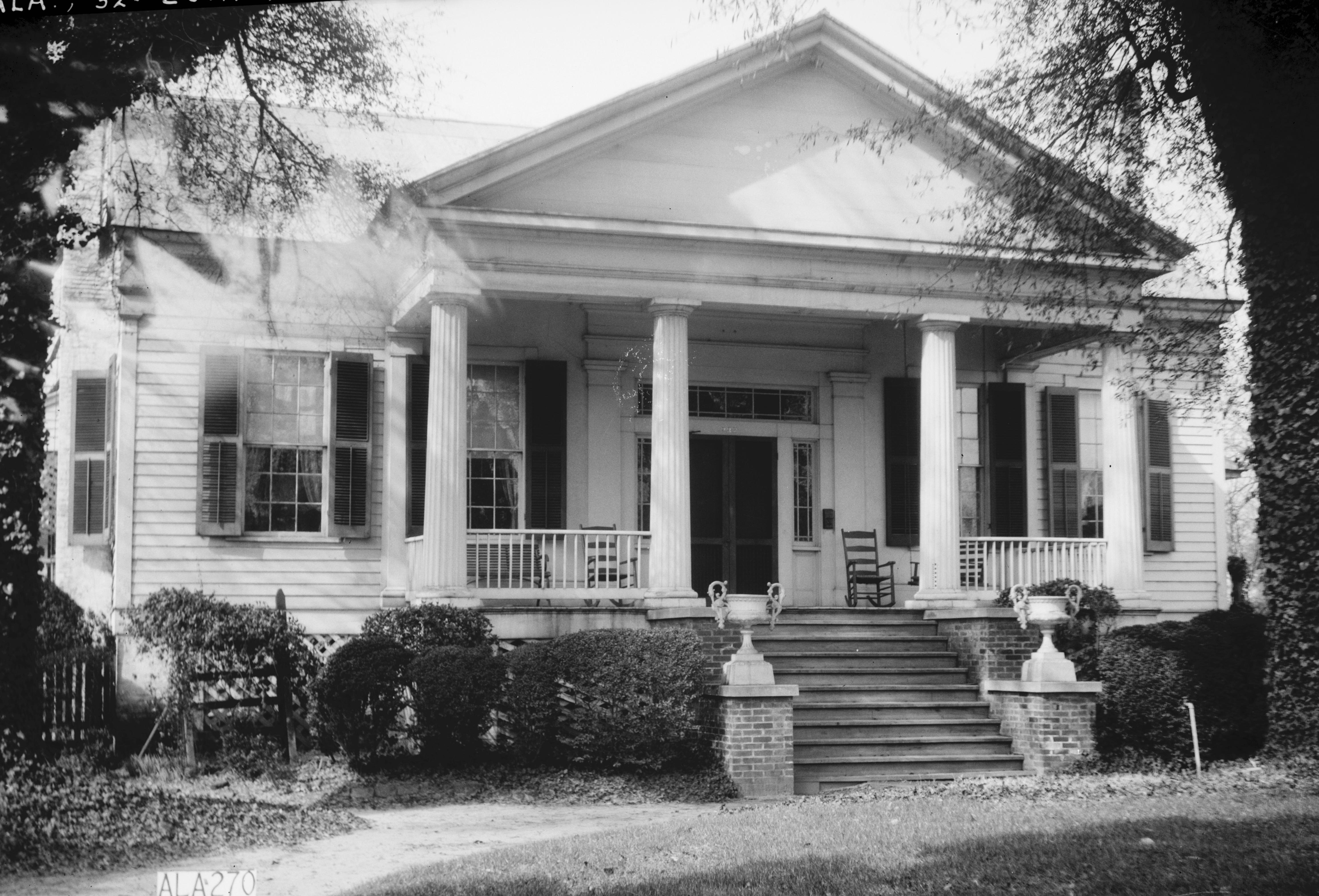 C. W. Dunlap House, 237 Wilson Avenue, Eutaw, Greene County, AL. NORTH ELEVATION (FRONT). Listed on the National Register of Historic Places as the Catlin Wilson House.